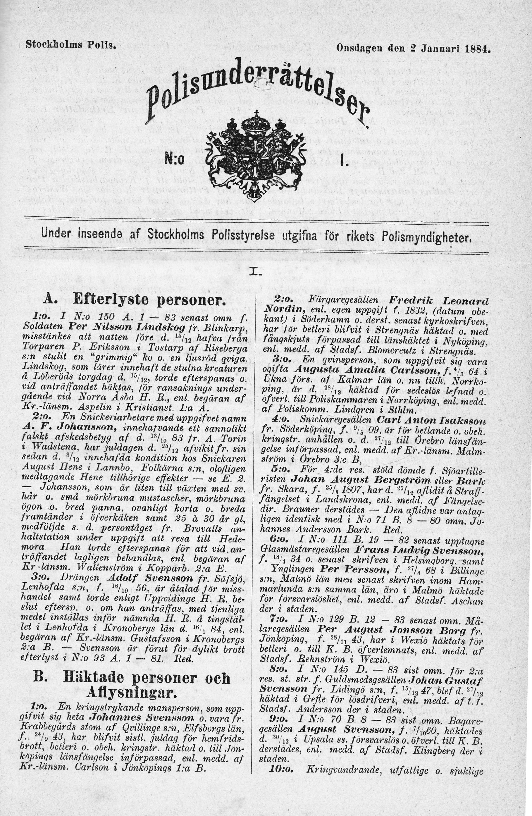 An issue of the Swedish police intelligence publication "Polisunderrättelser" from january 1884